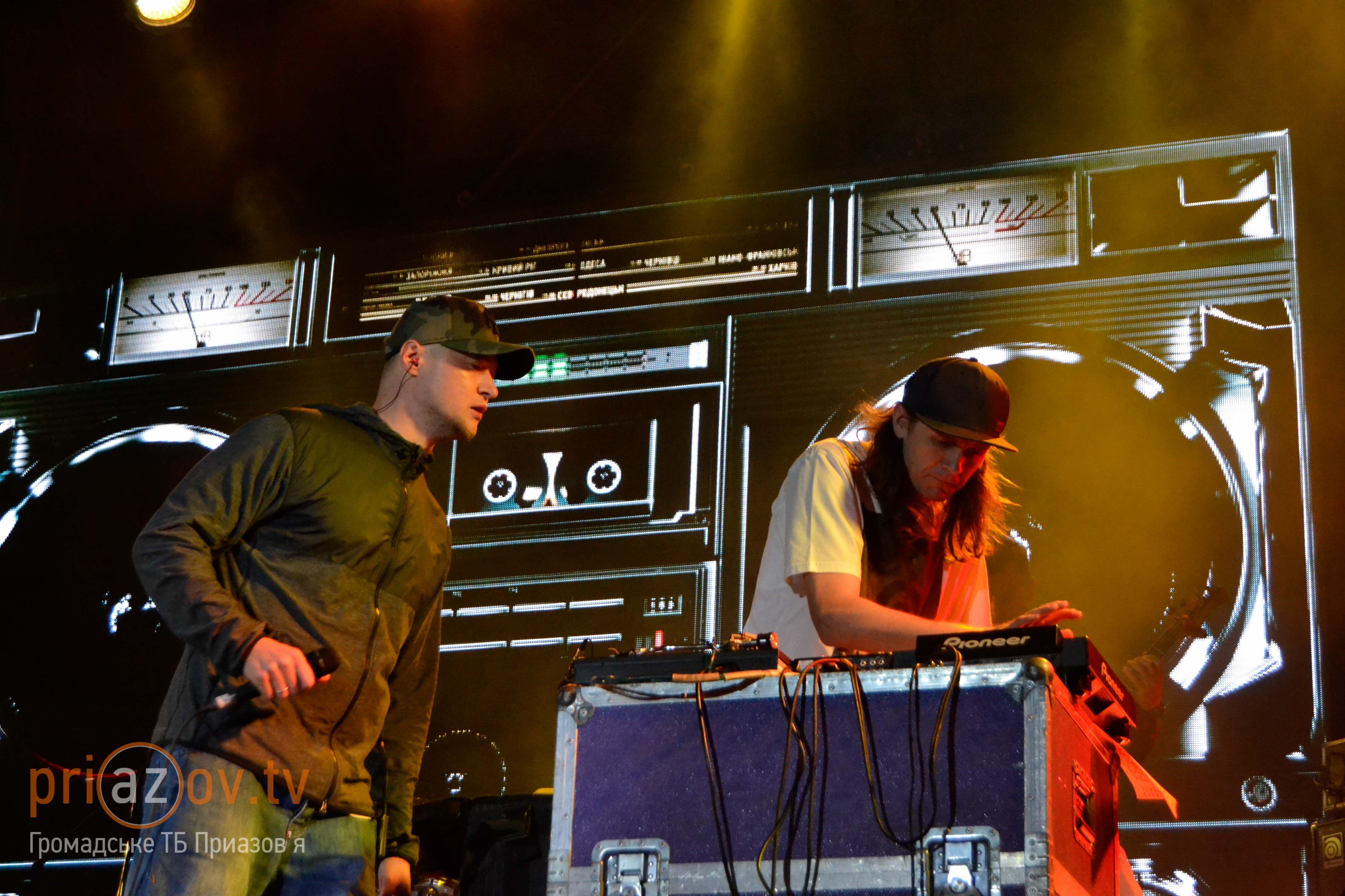 Ukrainian band Бумбокс (Boombox) at the MRPL City 2017 fest in Mariupol.